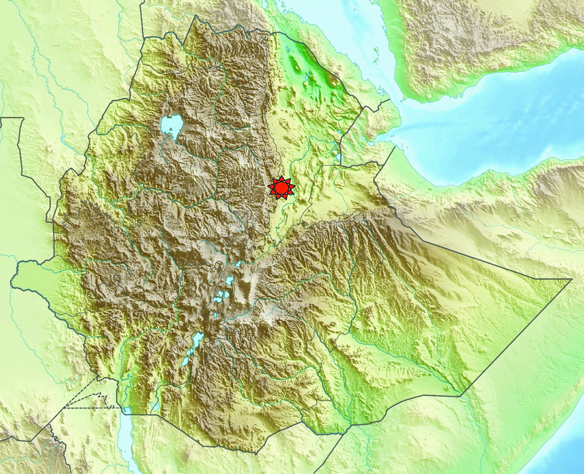 Middle Awash (Etiopia), paleoanthropological site